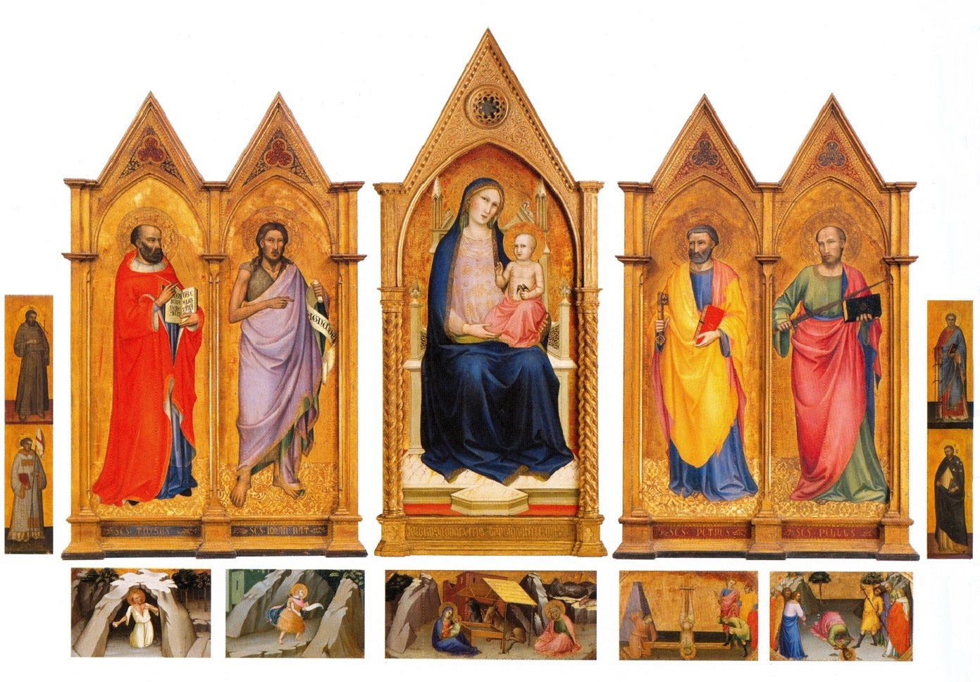 Lorenzo Monaco, Carmine Polyptych, 1398-1400, Reconstruction